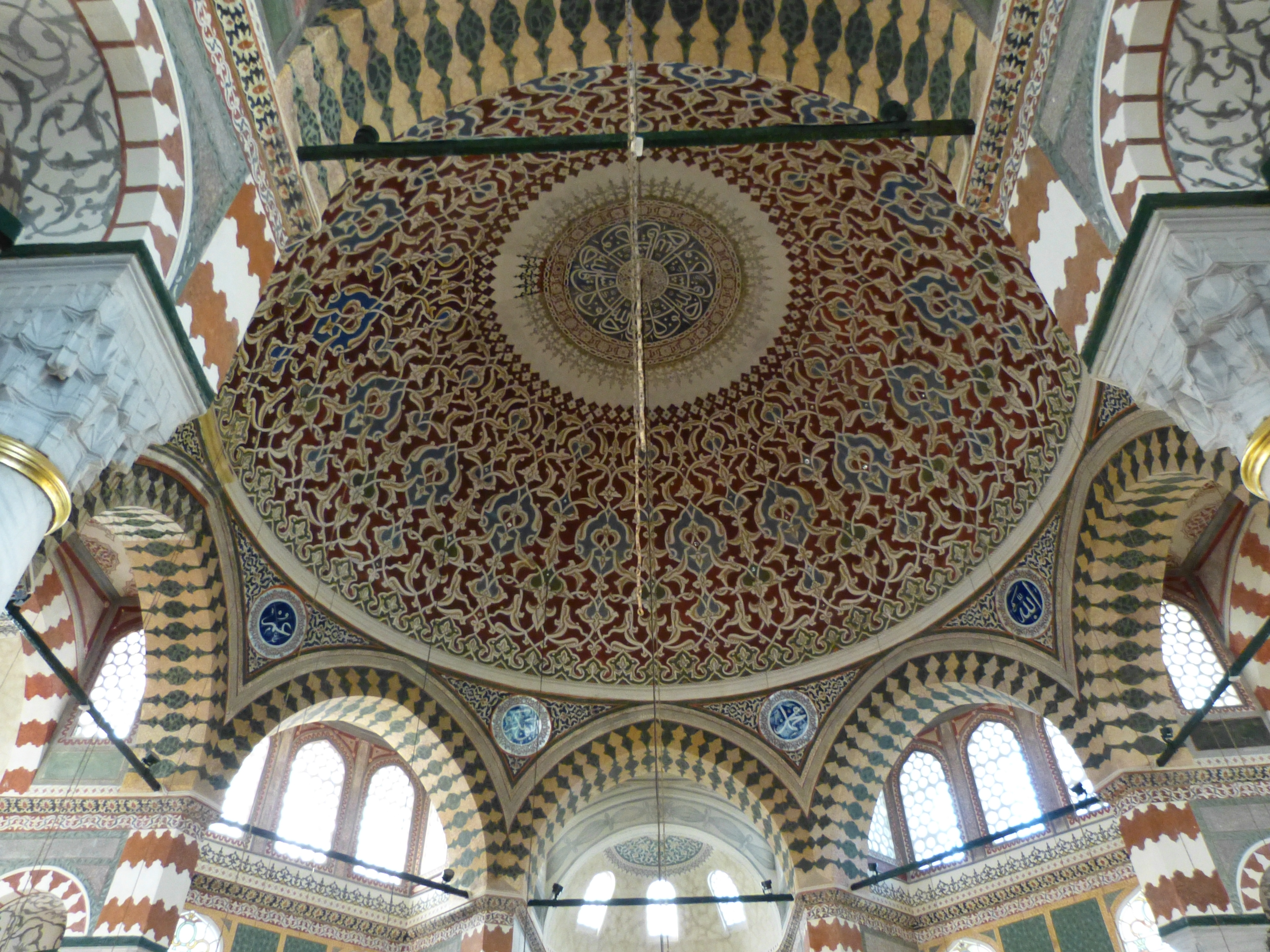 Türbe (Tomb) of Sultan Selim II. (1524–1574)